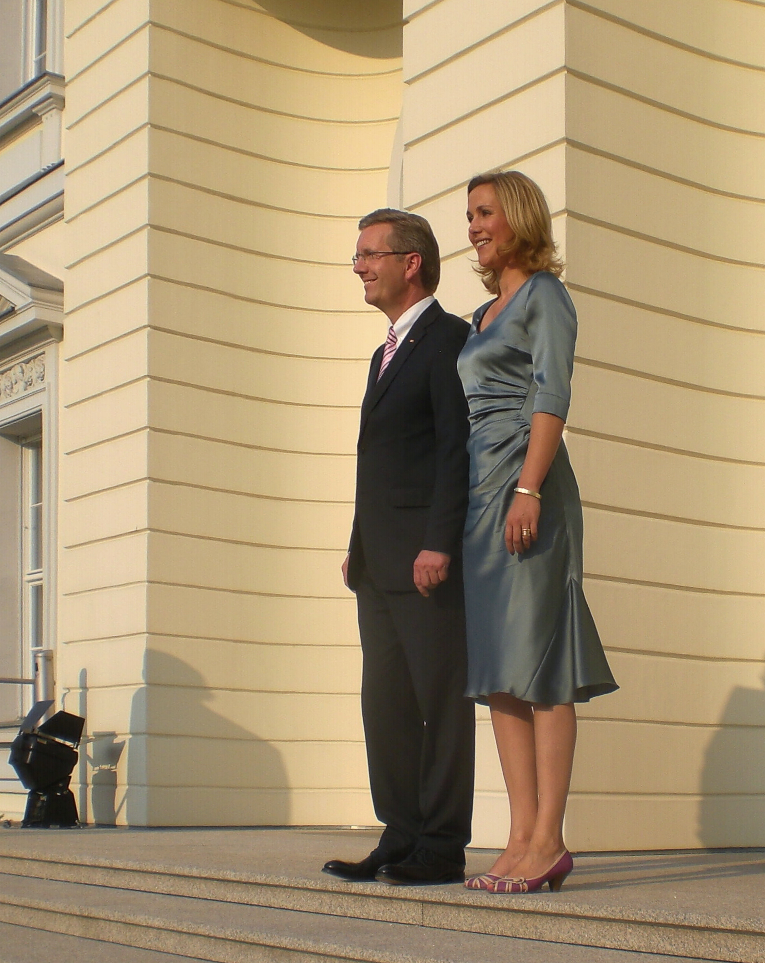 Bundespräsident Christian Wulff and his wife Bettina at Schloss Bellevue on the occasion of the "Sommerfest des Bundespräsidenten" on July 2 2010